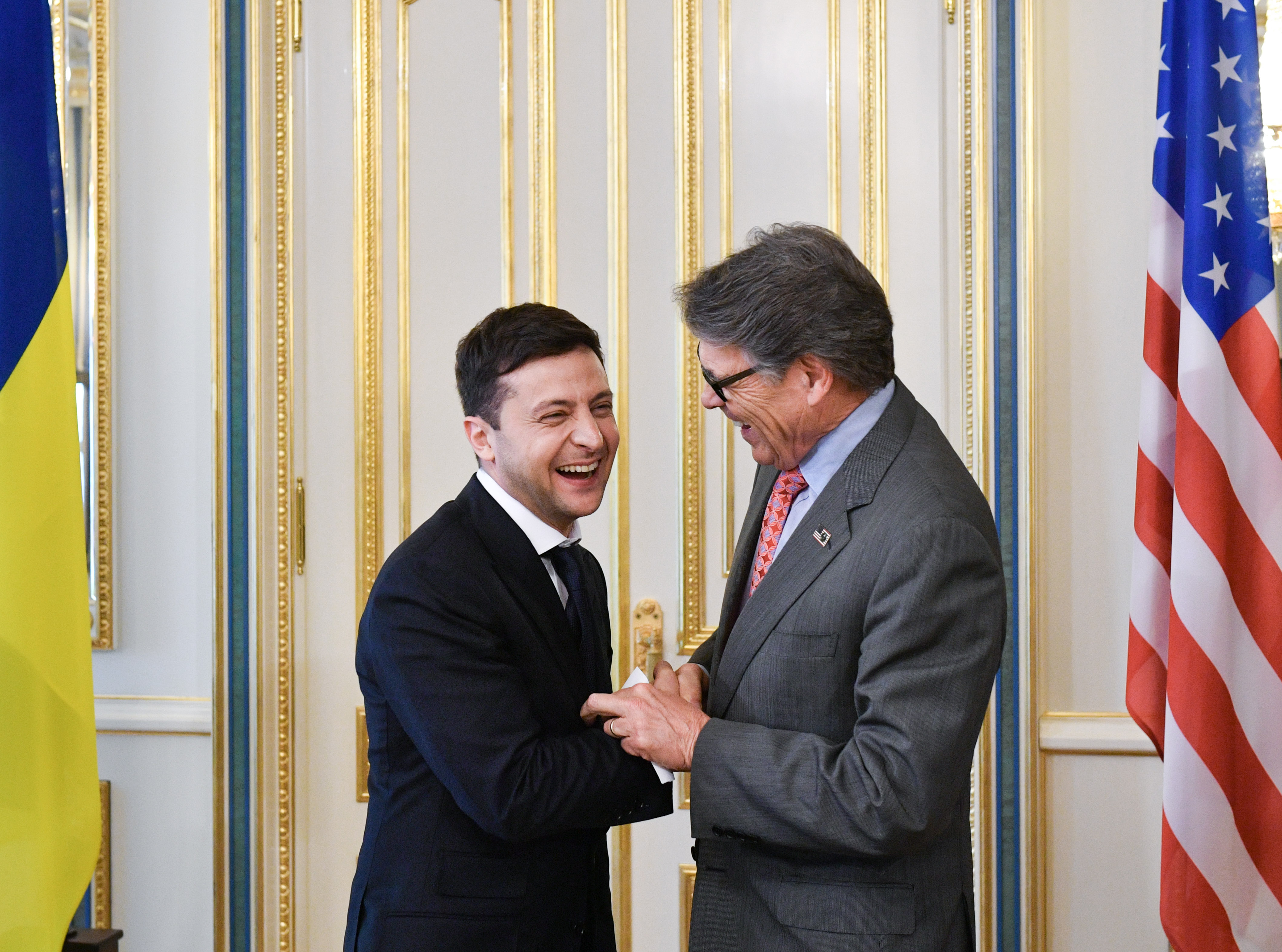 Volodymyr Zelensky with Rick Perry